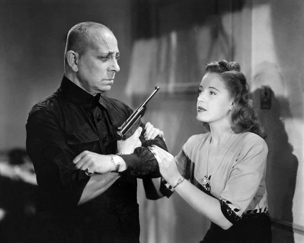 Erich von Stroheim and Mary Beth Hughes in The Great Flamarion (1945) - publicity still